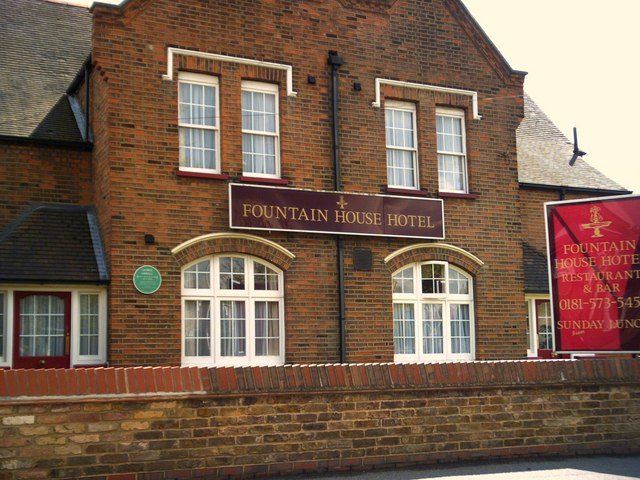 Fountain House Hotel, Church Road, Hayes UB3 2LW. Now a hotel, this used to be a private school where the novelist George Orwell taught for a time in the 1930s. His experience there informed his writings.